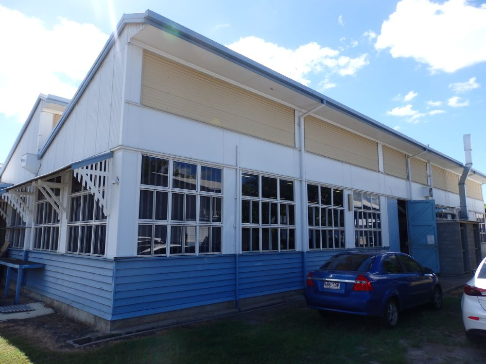 650046, Block M, southwest corner